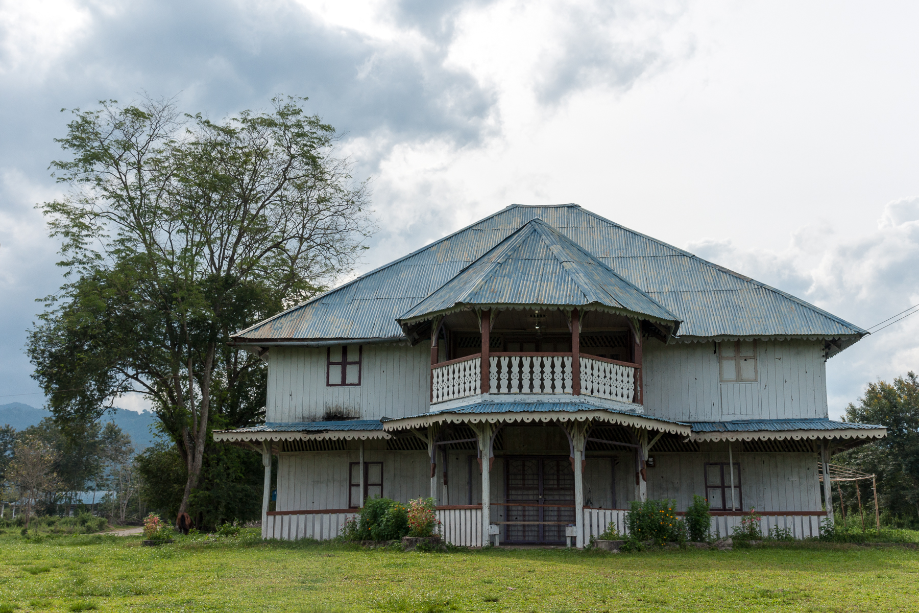 Bingkor, Sabah: Rumah Besar Sedomon